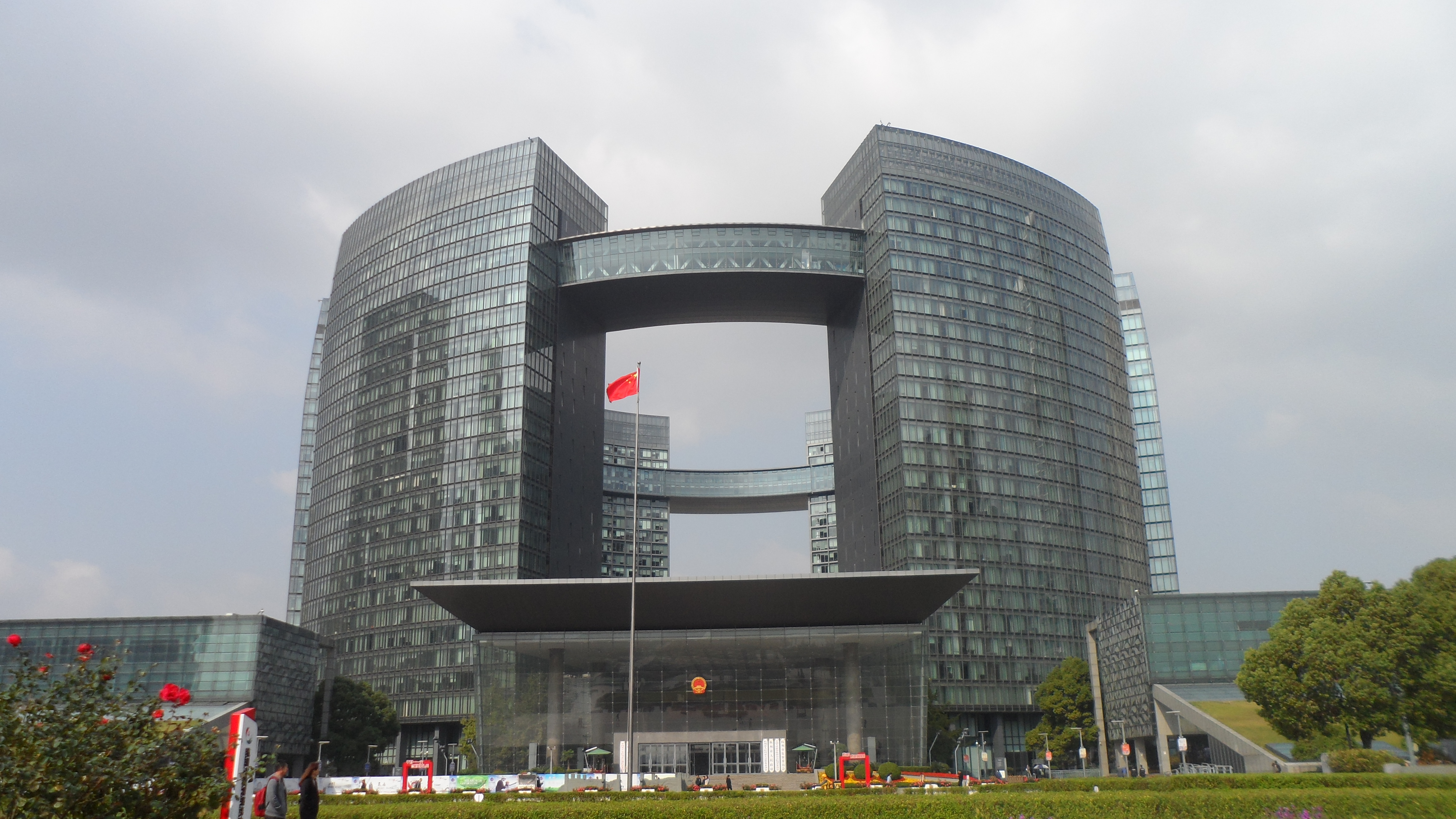 Hangzhou citizen center